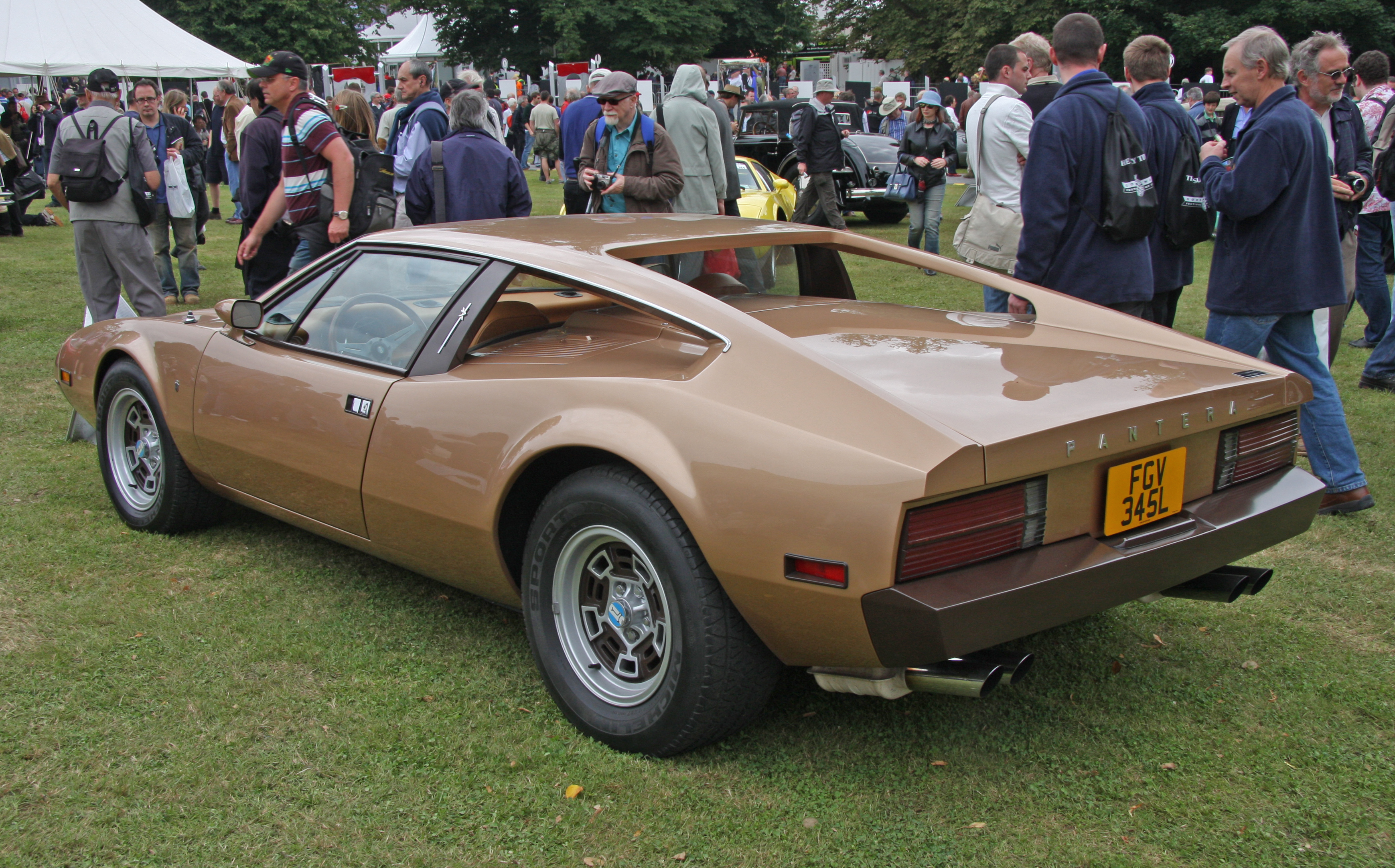 A prototype De Tomaso Pantera Series II.